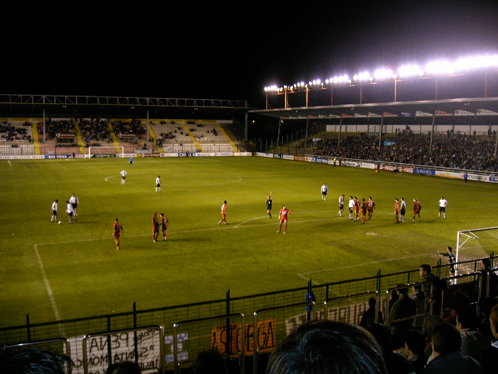 2004–05 Copa del Rey match between Burgos CF and Real Sociedad at Estadio El Plantío.